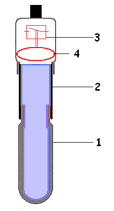 tensioswitch: (1) porous cup (2) water-filled tube (3) head with pressure-switch (4) membrane